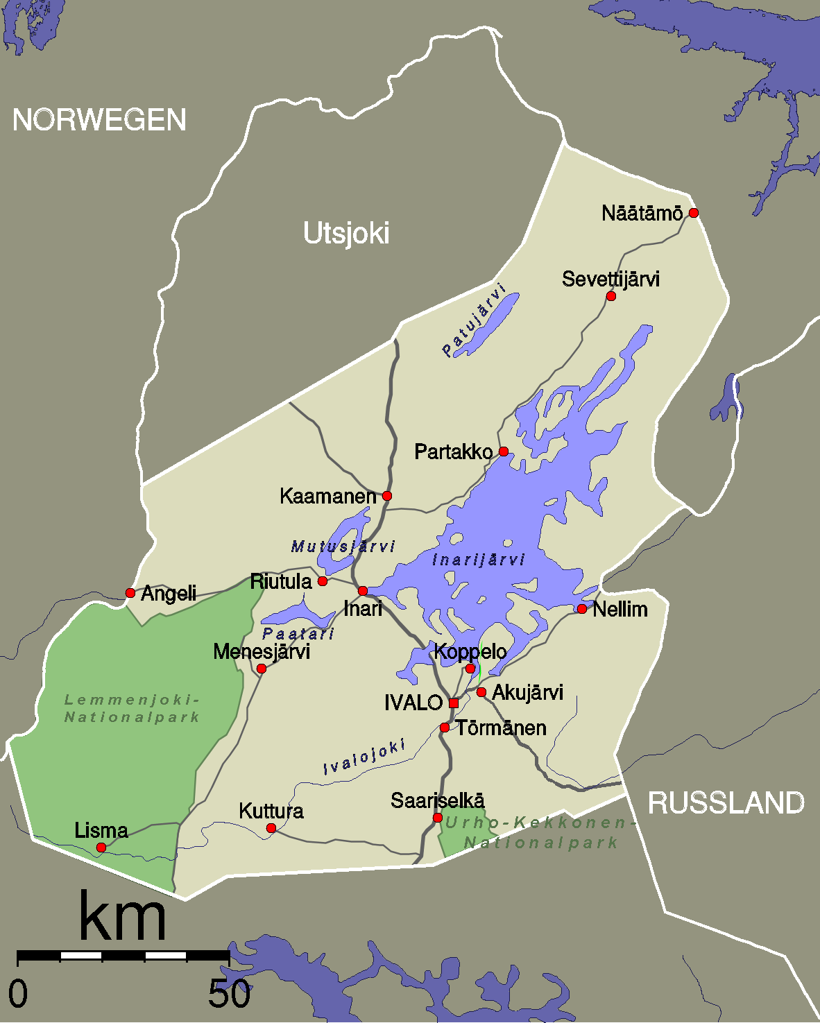 German map of Inari, Finland